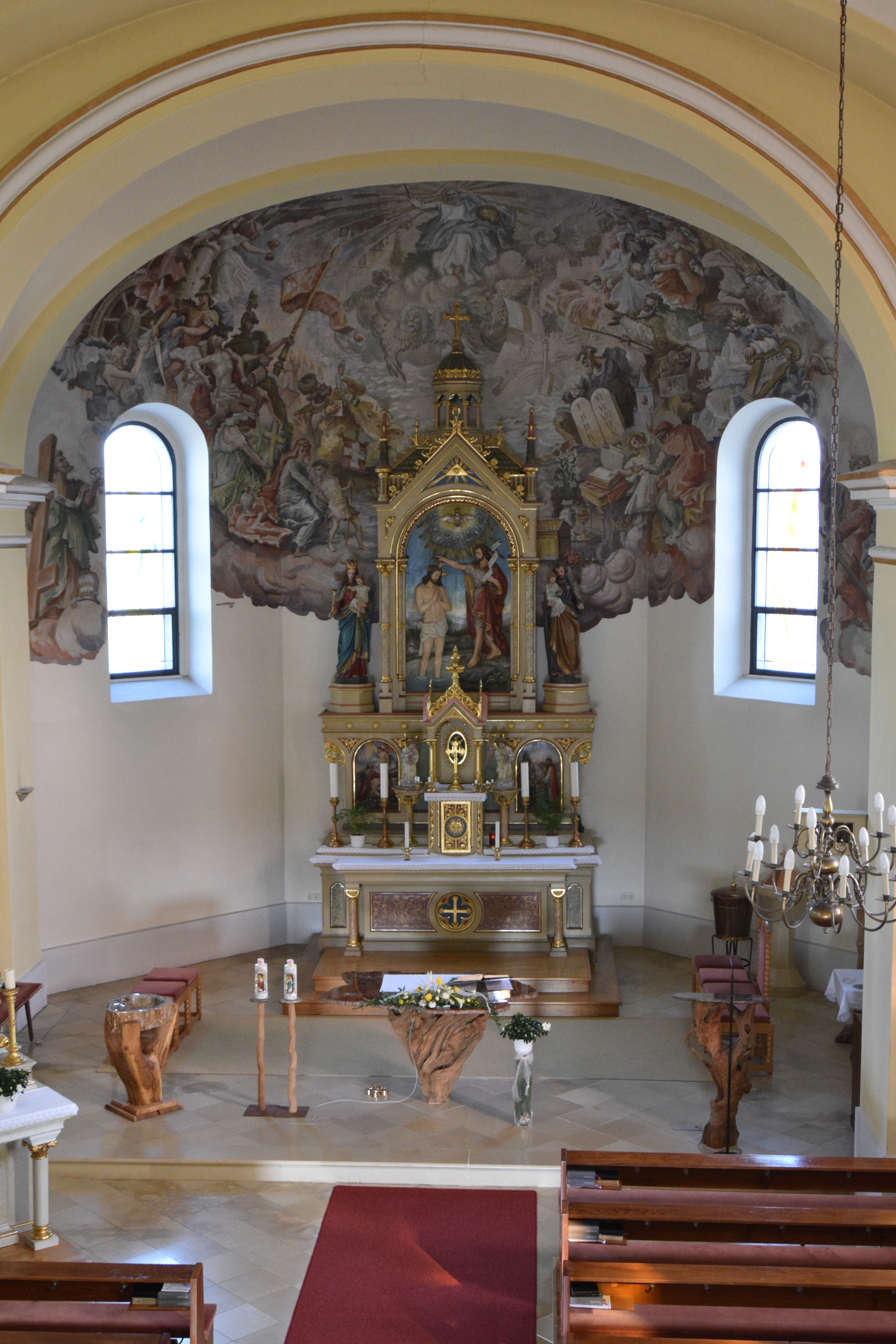 Church Neuberg im Burgenland - Interior